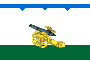 Flag of Vyazma, Smolensk Region, Russia